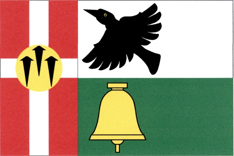 Municipal flag of Chotíkov village, Plzeň-North District, Czech Republic